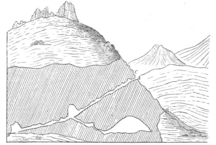 Map of Csörgő Hole (Hungary)